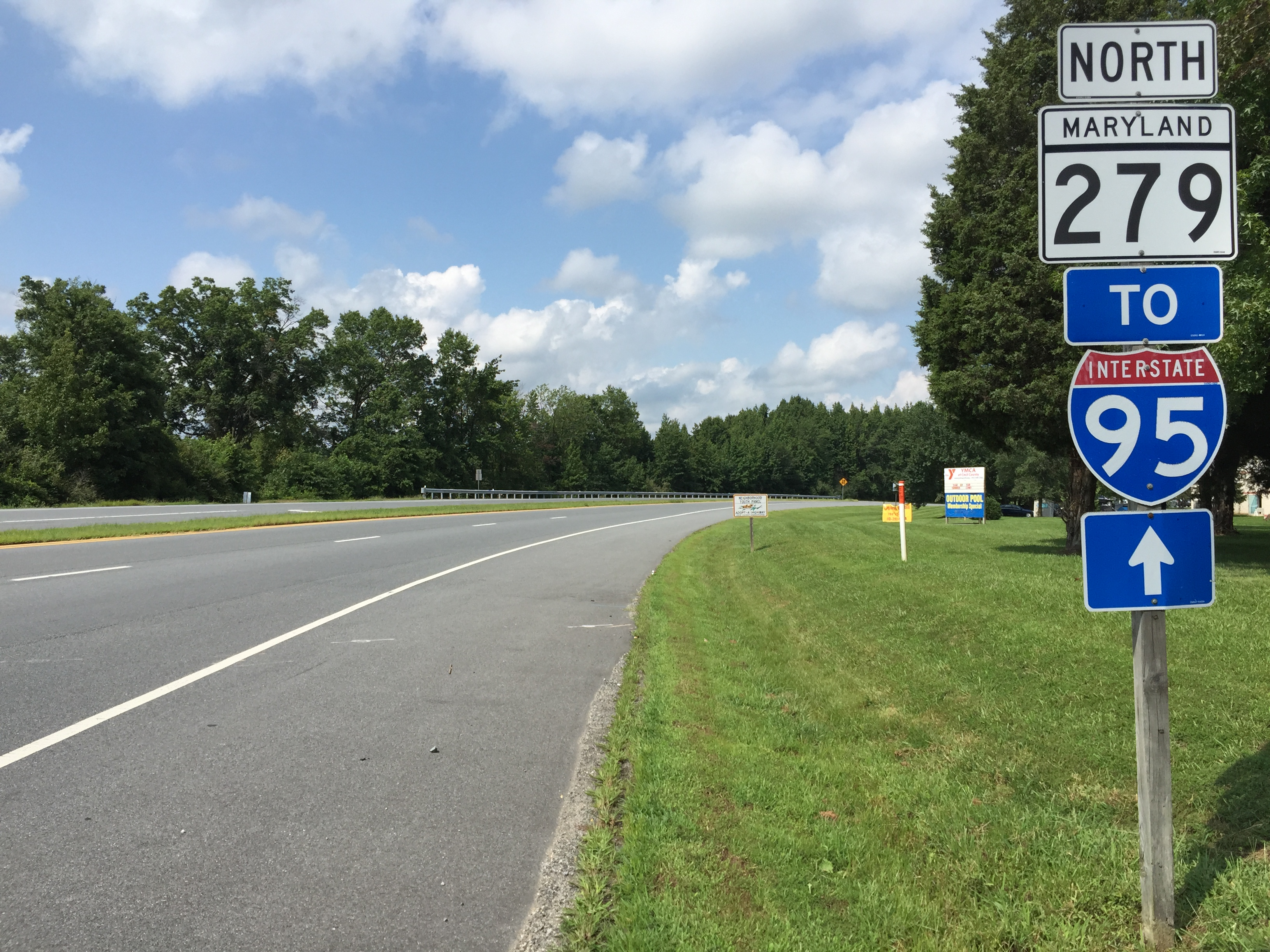 View north along Maryland State Route 279 (Elkton Road) at U.S. Route 40 (Pulaski Highway) in Bacon Hill, Cecil County, Maryland